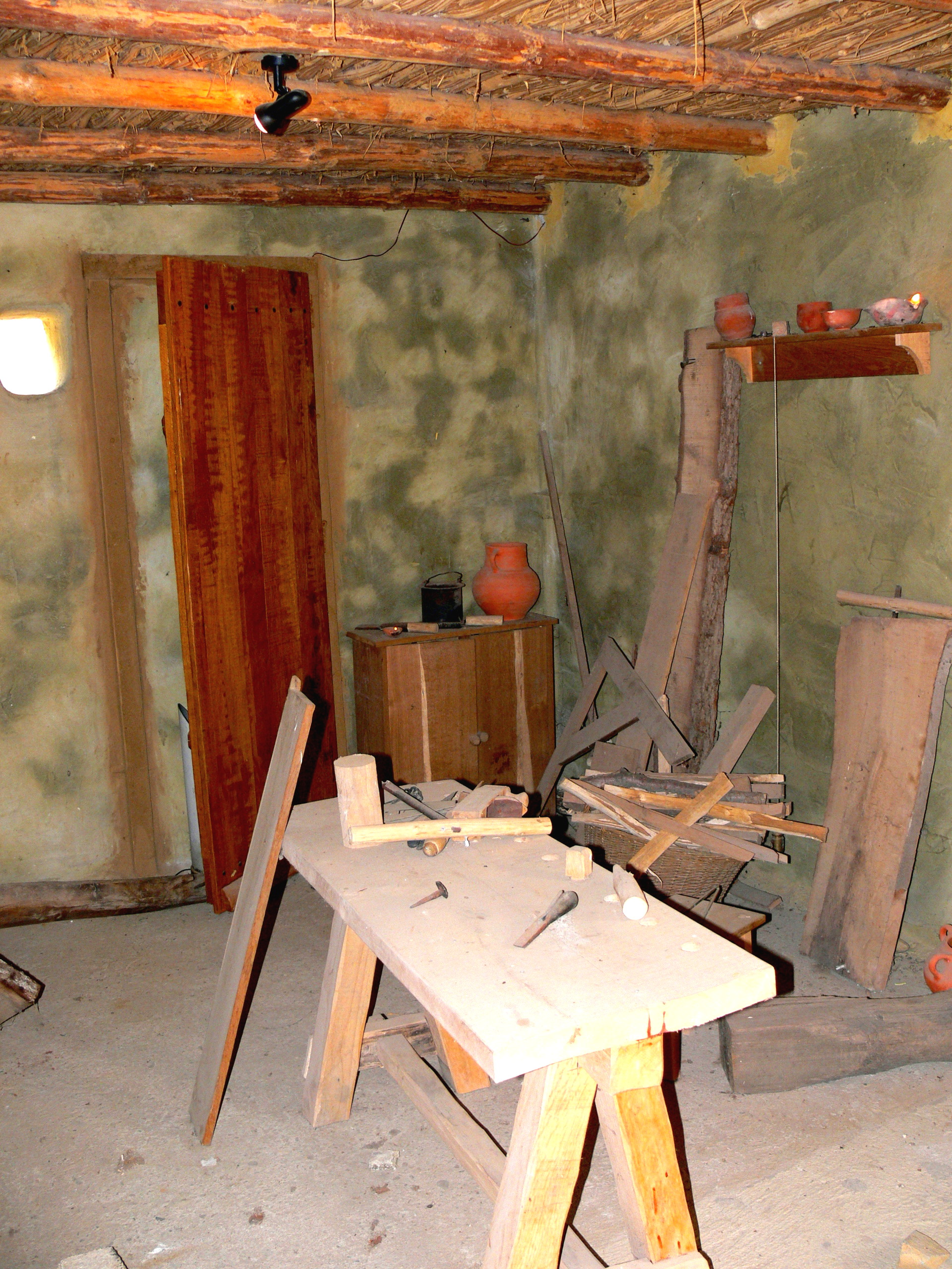 Bible open air museum in Nijmegen. Beith Juda Jewish village: Carpenter´s shop like the one, Joseph, Jesus´ father, was probably working in.